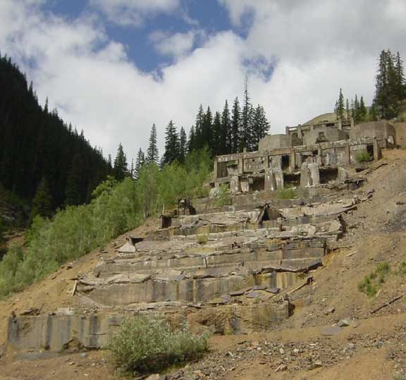 foundation of the old ore mill at Eureka, Colorado, USA